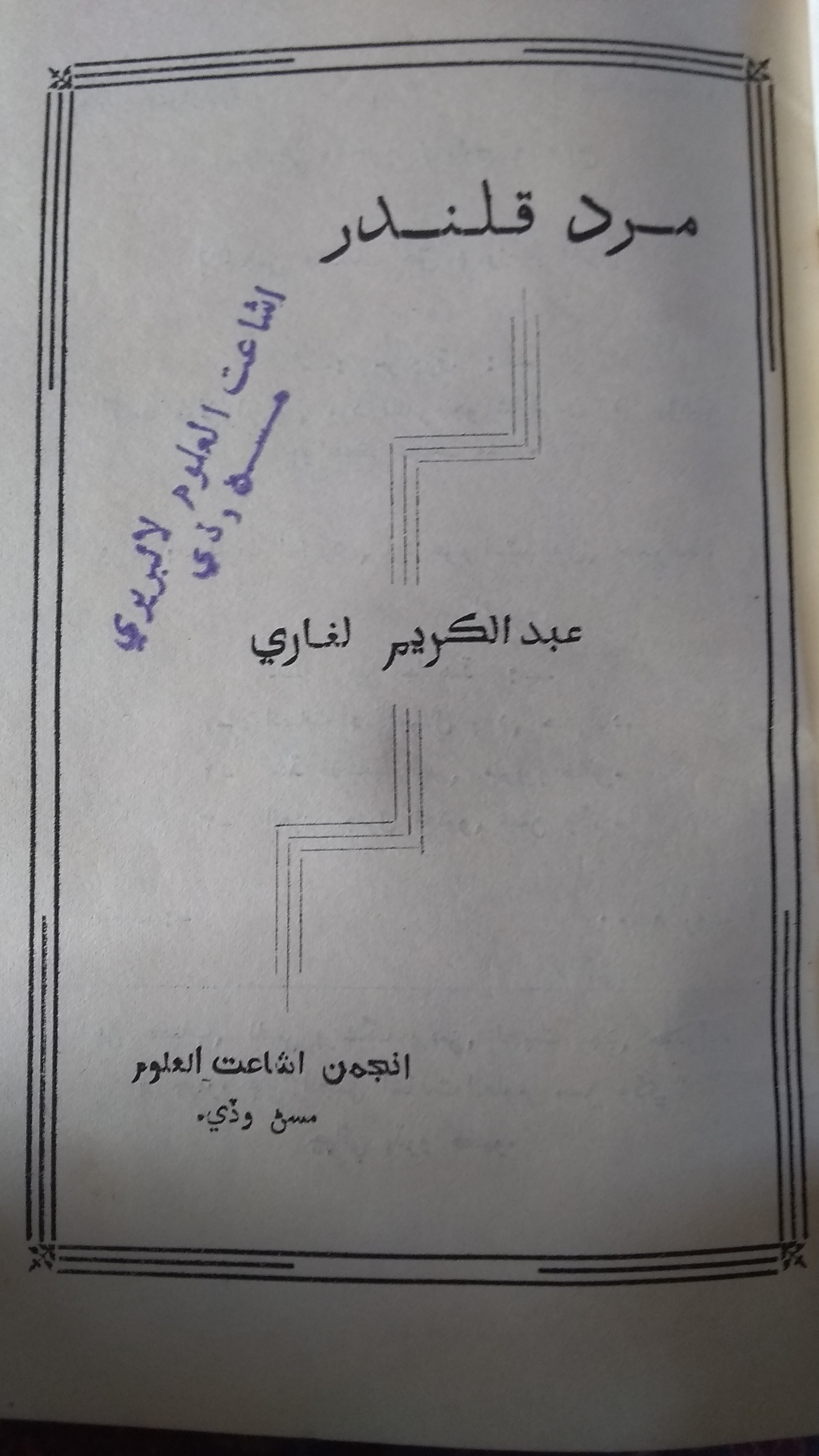 Mard e qalandar 2